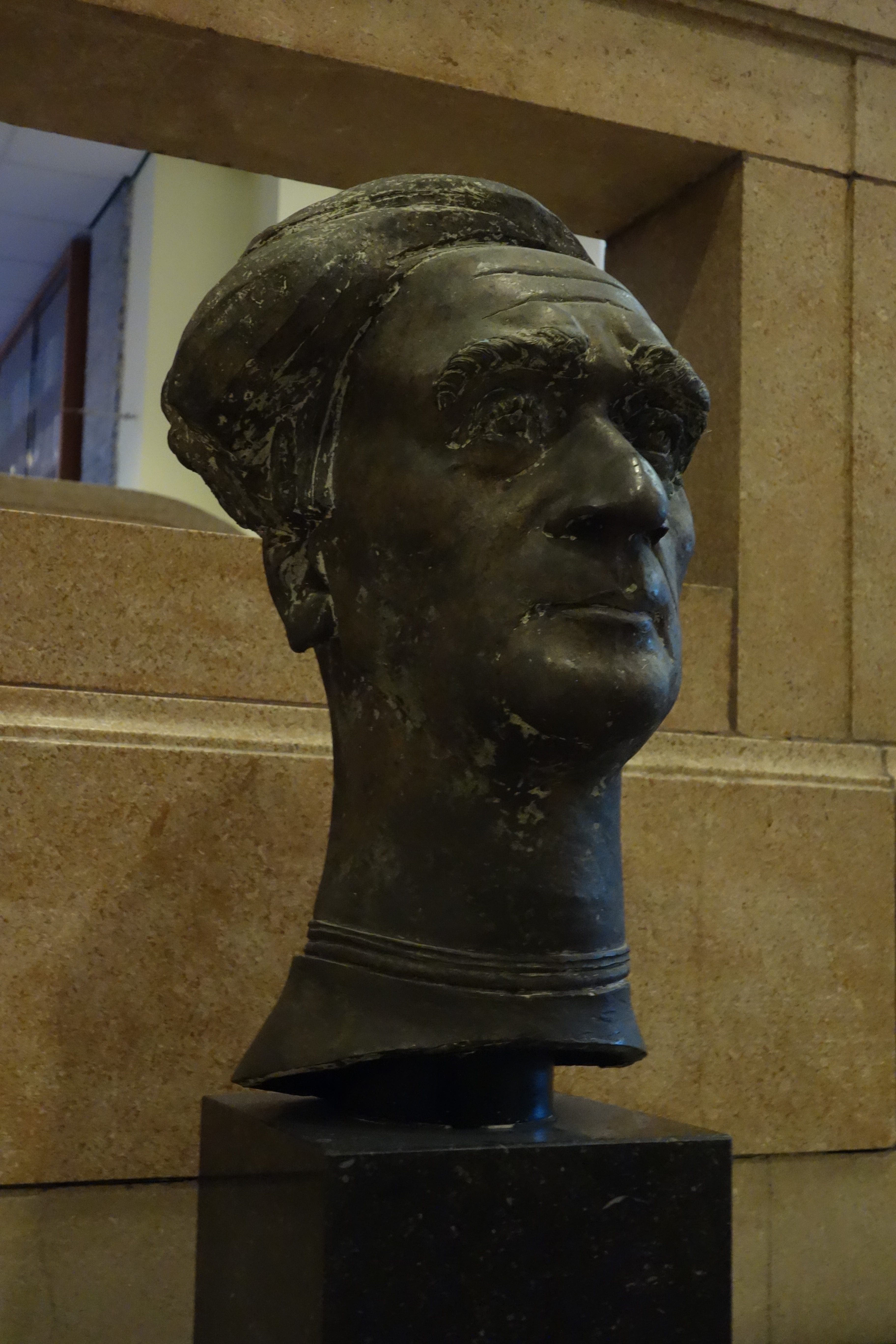 Sculpture of Gerard Veringa by Arthur Spronken, at Maastricht University